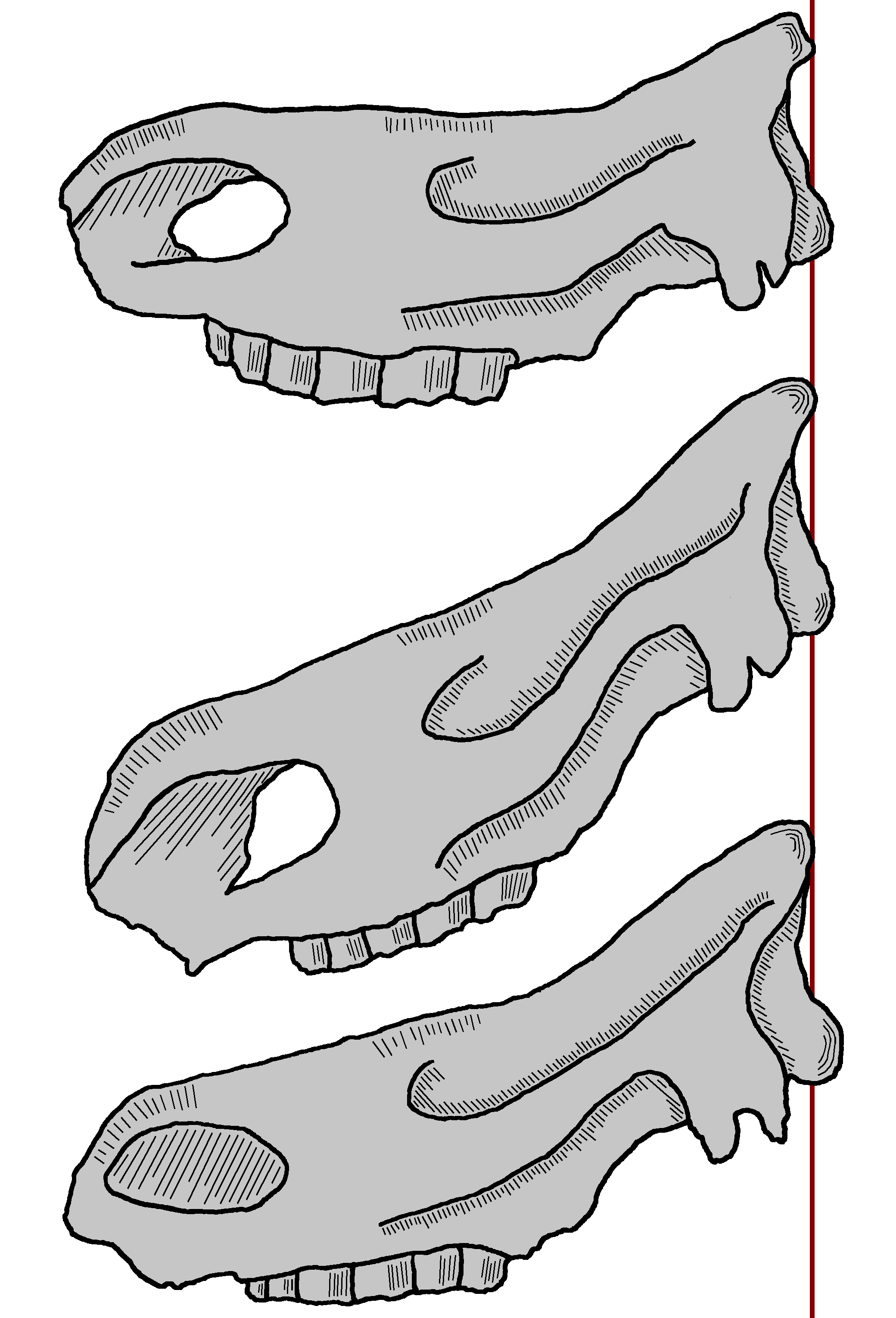 anatomical skull position of the three European Middle and Upper Pleistocene rhinos. Above: forest rhino (Stephanorhinus kirchbergensis), middle: steppe rhino (Stephanorhinus hemitoechus), below: wolly rhino (Coelodonta antiquitatis). Without mandibula.